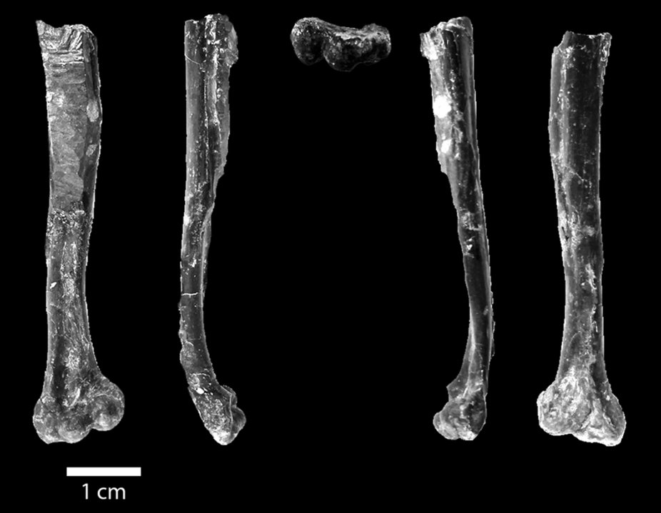 Distal left humerus referred to Tingmiatornis arctica, UR 00.200. Photograph of the element in (left to right) cranial, dorsal, ventral, and caudal views.